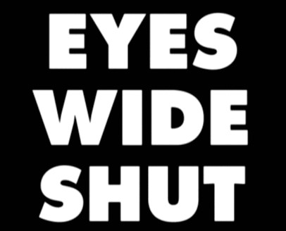 Logo of the film "Eyes Wide Shut".